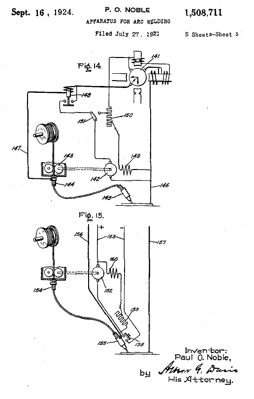 US Patent 1508711, P. O. Noble, Apparatus For Arc Welding, the 5th sheet